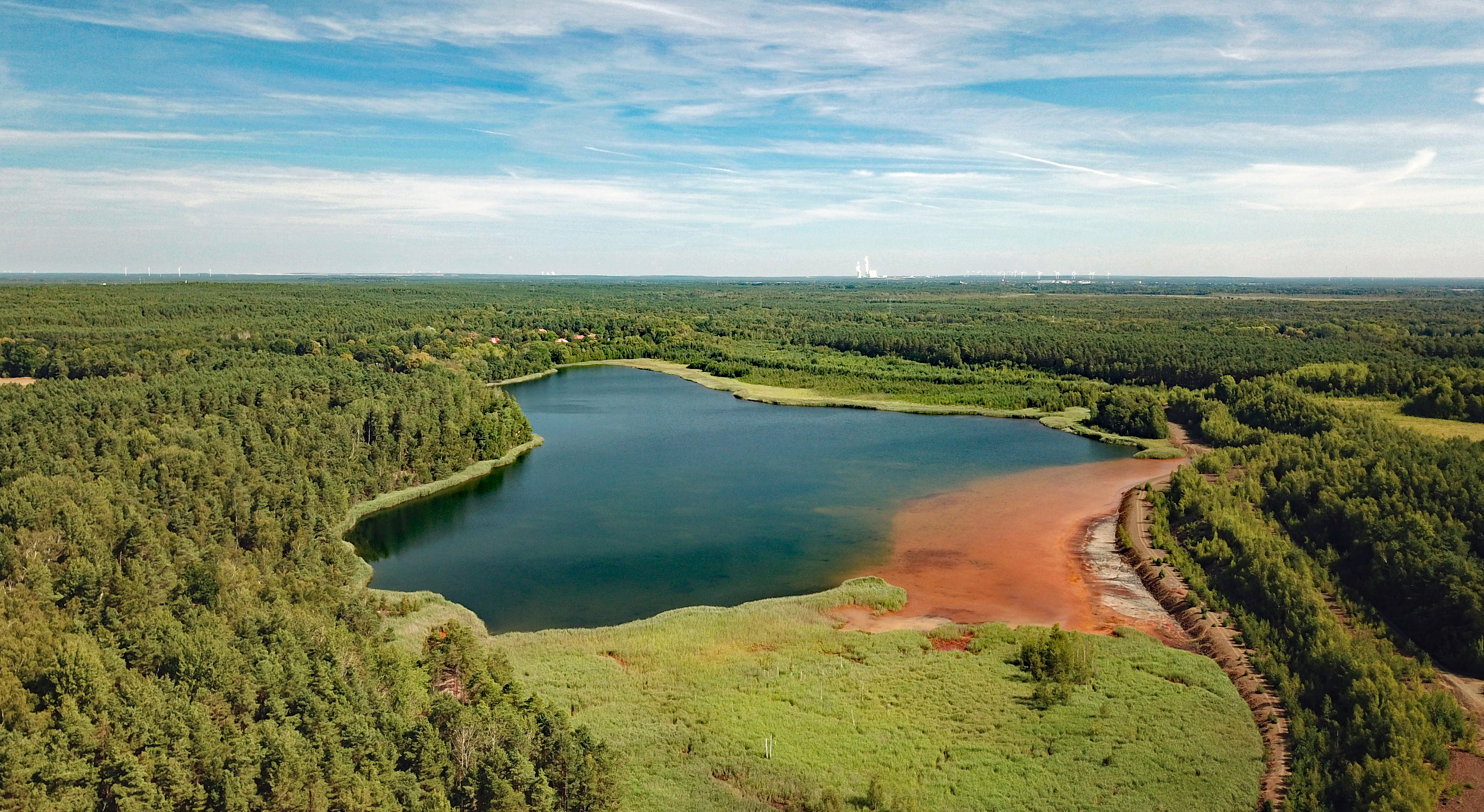 Zeißholz Clara III (Bernsdorf, Saxony, Germany)